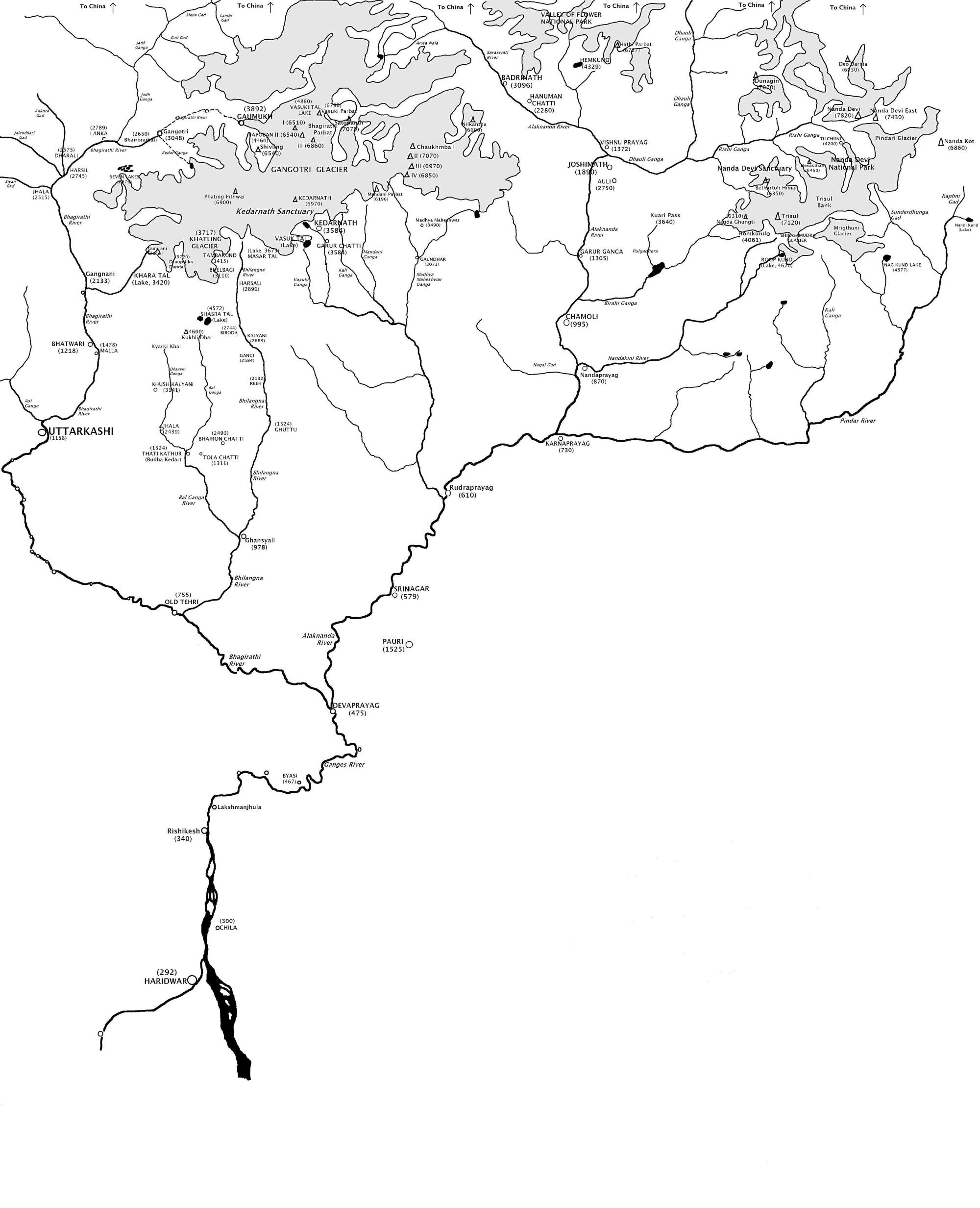 Map showing the Himalayan headwaters of the Ganges river of the Indian subcontinent. The map is based on the map in . That map in turn is based on the map of the region produced by the Surveyor General of India.